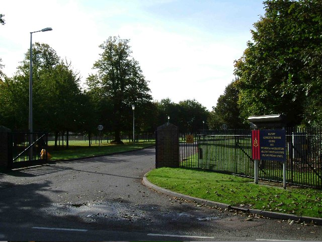 This is the gate to the Military Corrective Training Centre at Berechurch Camp in Colchester, Essex. The inmates are referred to as Servicemen Under Sentence, not prisoners. The MOD maintains this is not actually a prison as in civilian life many of the misdemeanours that send people here would not attract a custodial sentence. A good proportion of the alumni of this training centre are discharged back to their units and have creditable careers in the services.